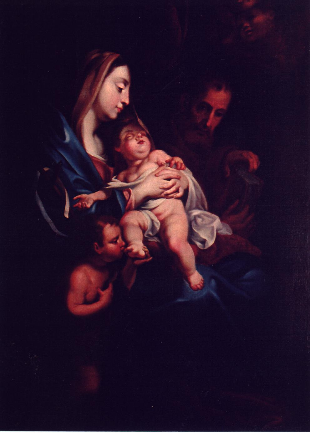 Restored in 2000, new frame